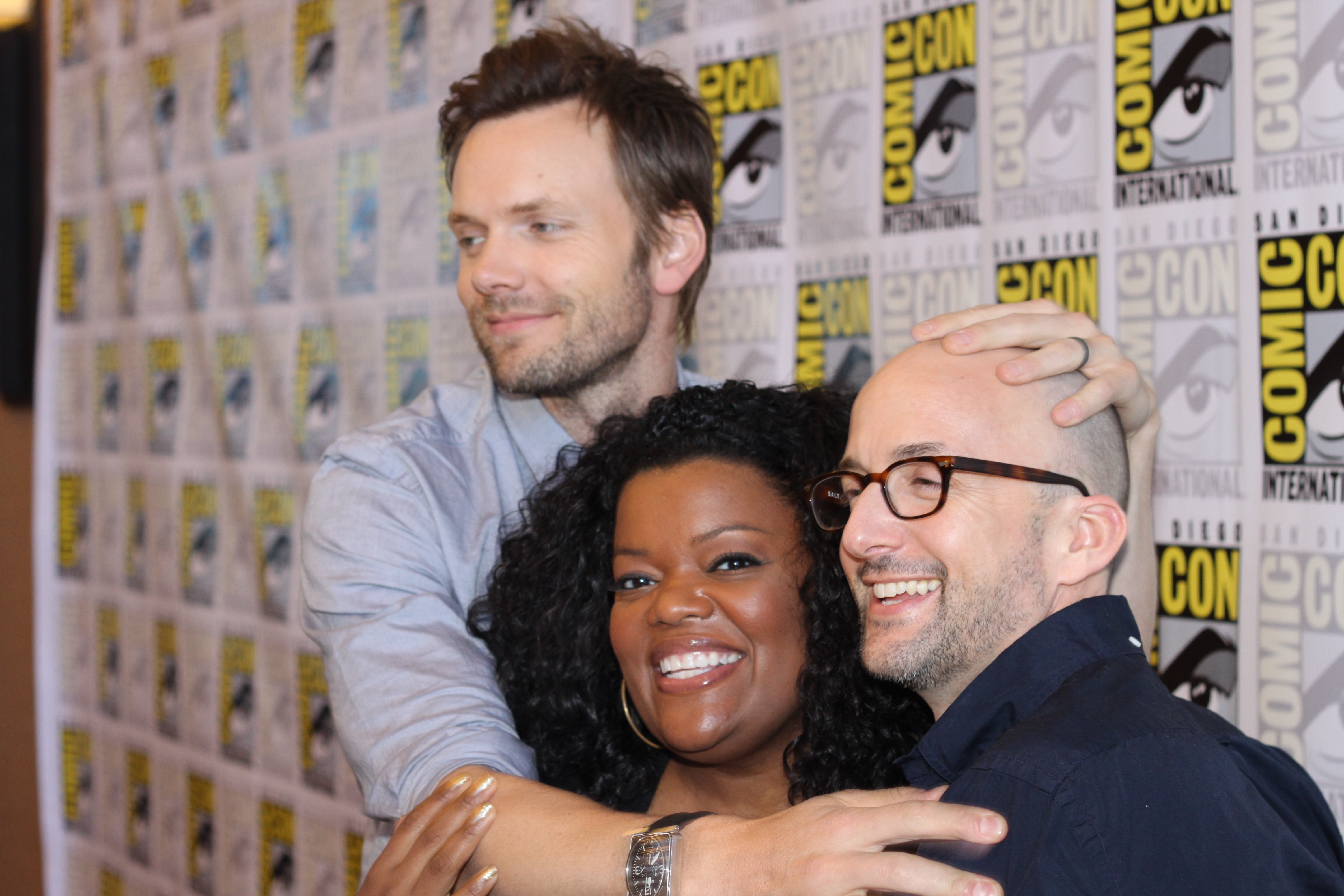 Joel McHale, Yvette Nicole Brown & Jim Rash at San Diego Comic-Con 2011